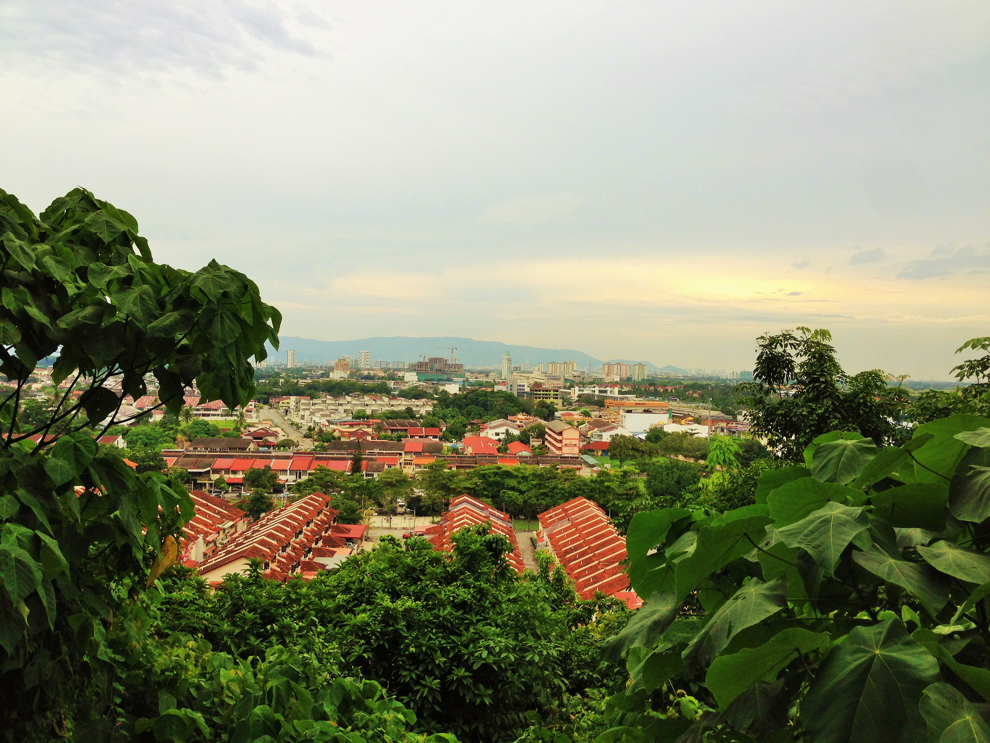 D.O. Hill Recreational Park in Bukit Mertajam, Penang